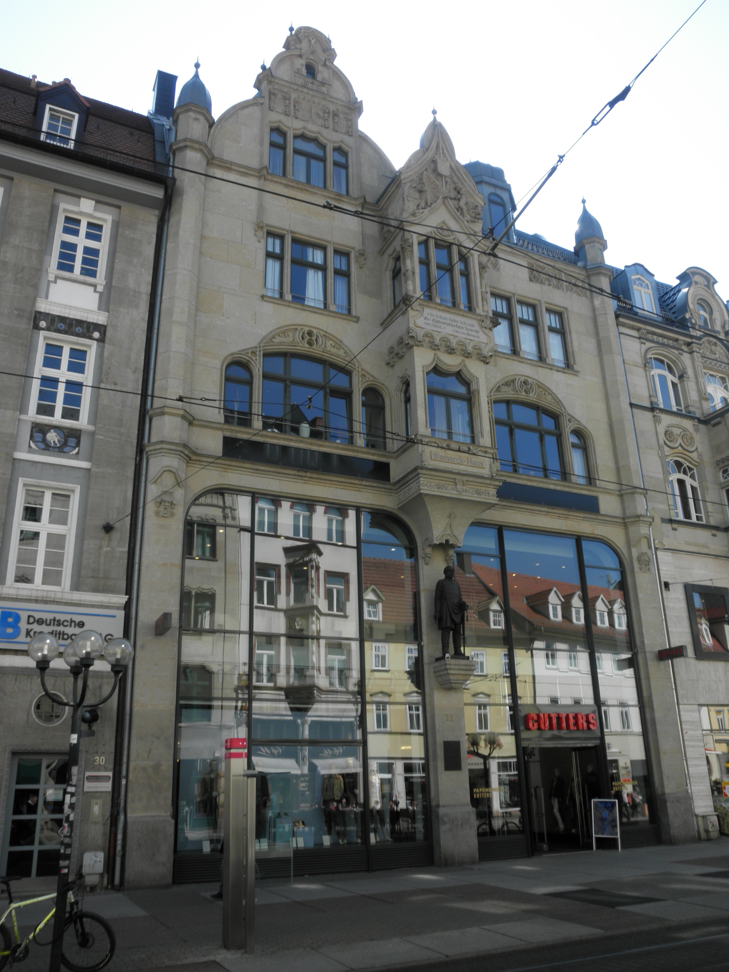 Bismarck House (Bismarck-Haus), Anger 33, in Erfurt in Thuringia